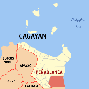 Map of Cagayan showing the location of Peñablanca